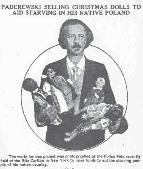 Paderewski selling Christmas dolls to aid starving in his native Poland